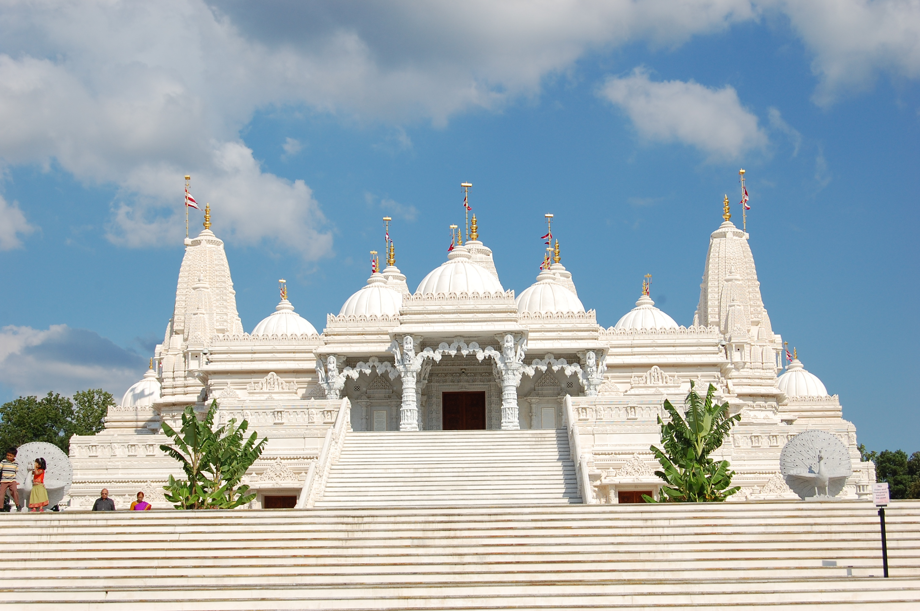 BAPS Shri Swaminarayan Mandir Atlanta in Lilburn, Georgia, United States